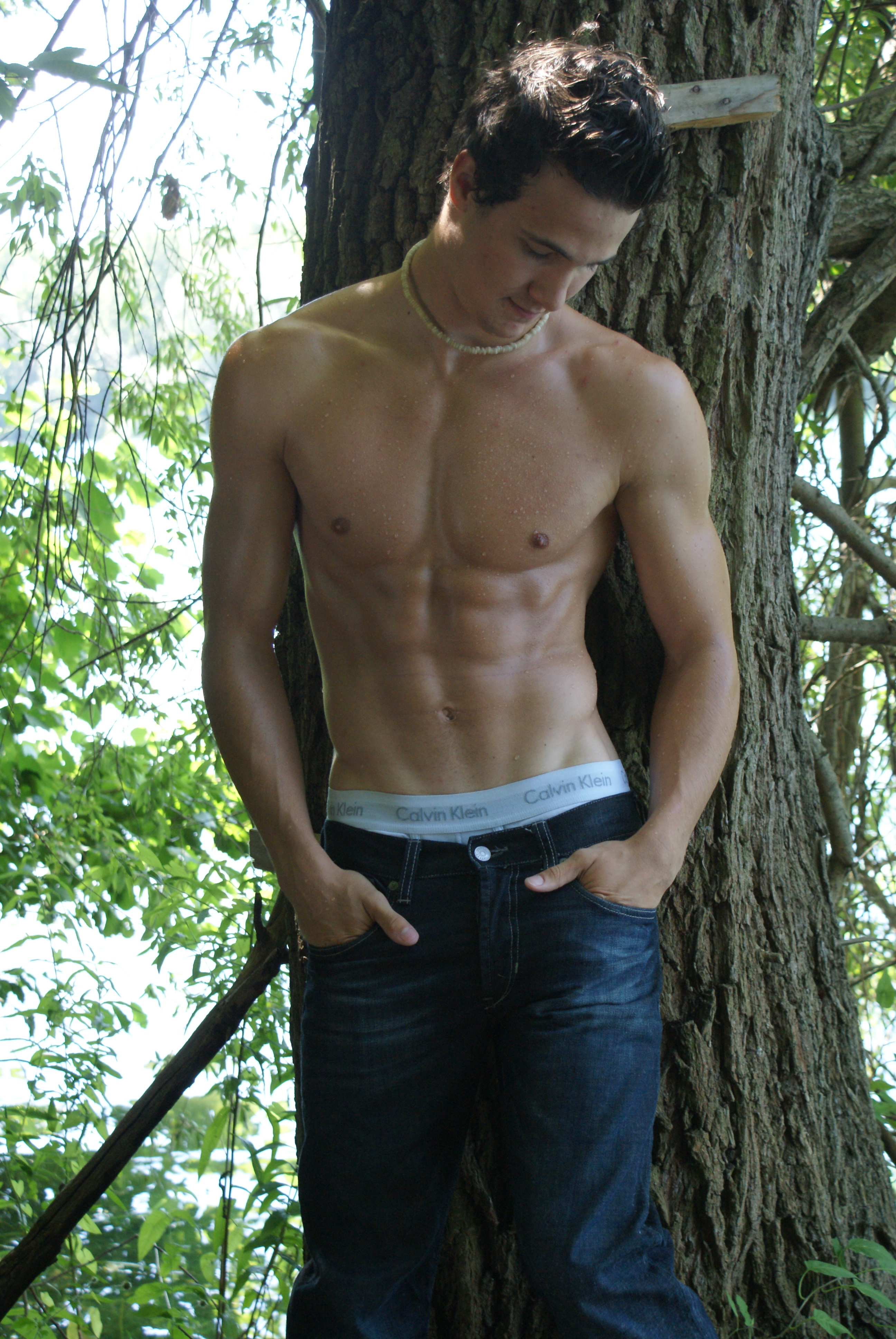 german model with sixpack